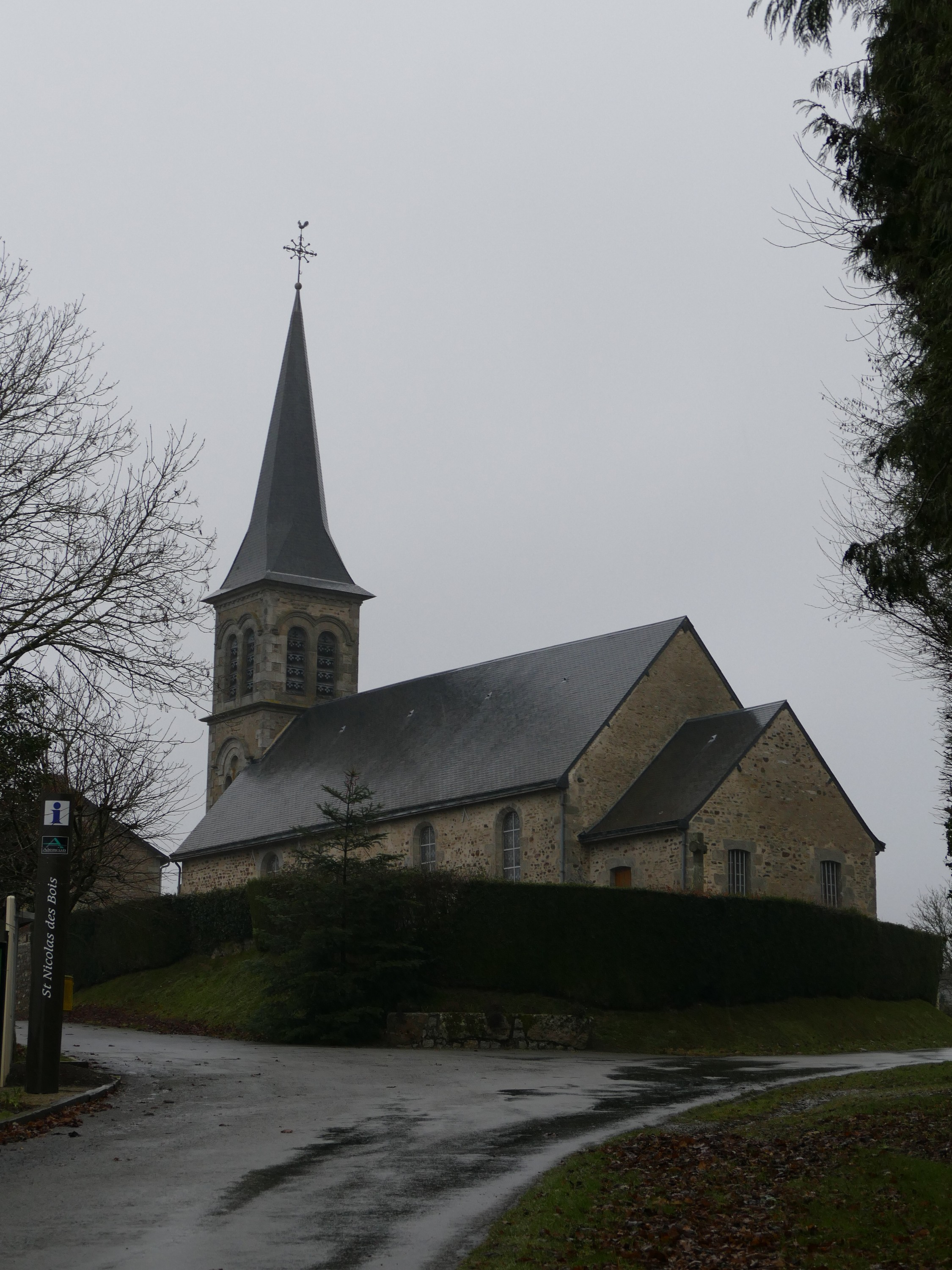 Saint-Nicolas' church in Saint-Nicolas-des-Bois (Orne, Normandie, France).